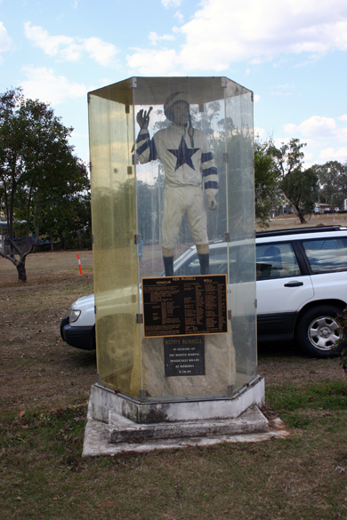 A statue, encased in a clear plastic shell, memorialising the Australian jockey Kenny Russell. The statue is on the Burnett Highway immediately to the north of the town of Monto, Queensland.